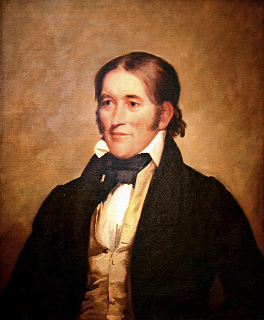 Portrait of Davy Crockett